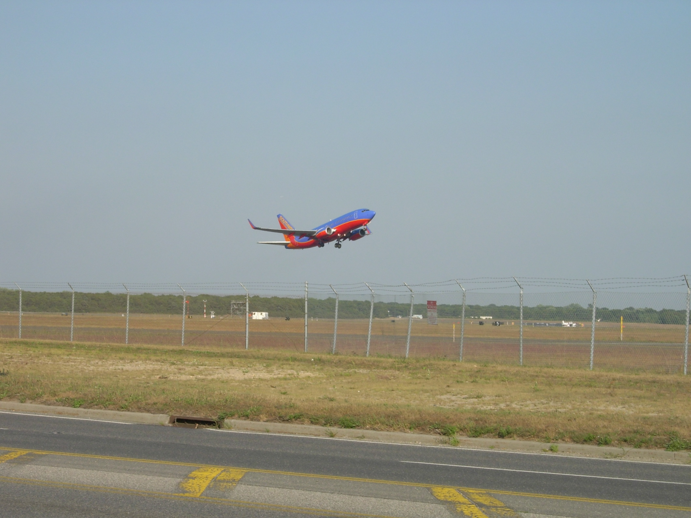 A Southwest Airlines Boeing 737 departing Runway 24 at Islip Macarthur Airport.